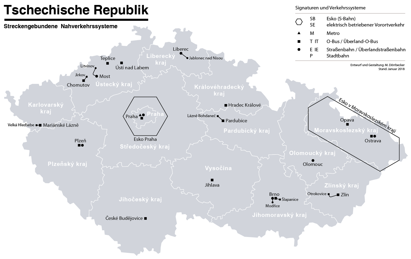 Map of fixed-route public transport systems (suburban railways, Rapid Transit and Light Rail Transit systems, tram, trolleybus) in the Czech Republic (2018)